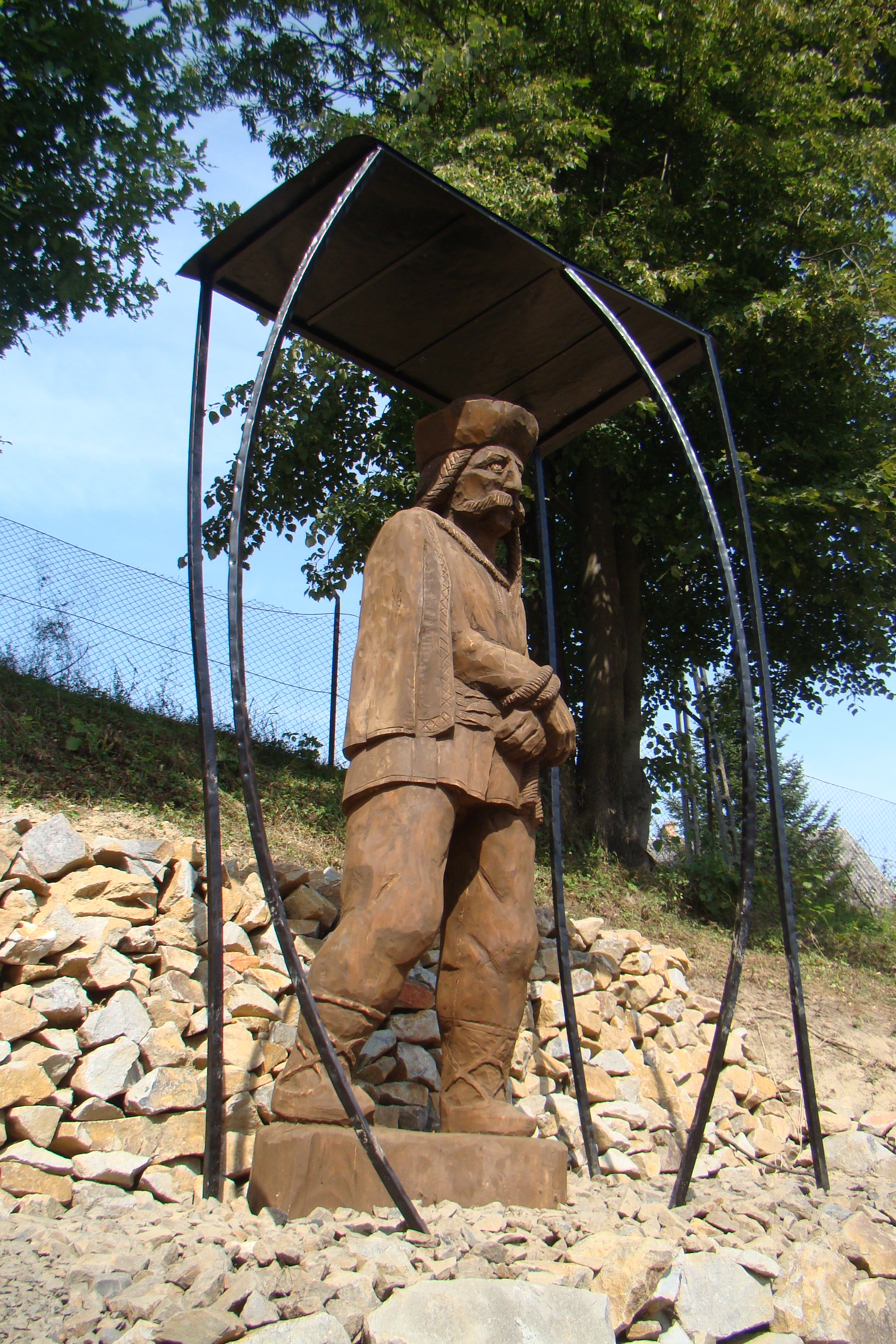 Tolhaj.